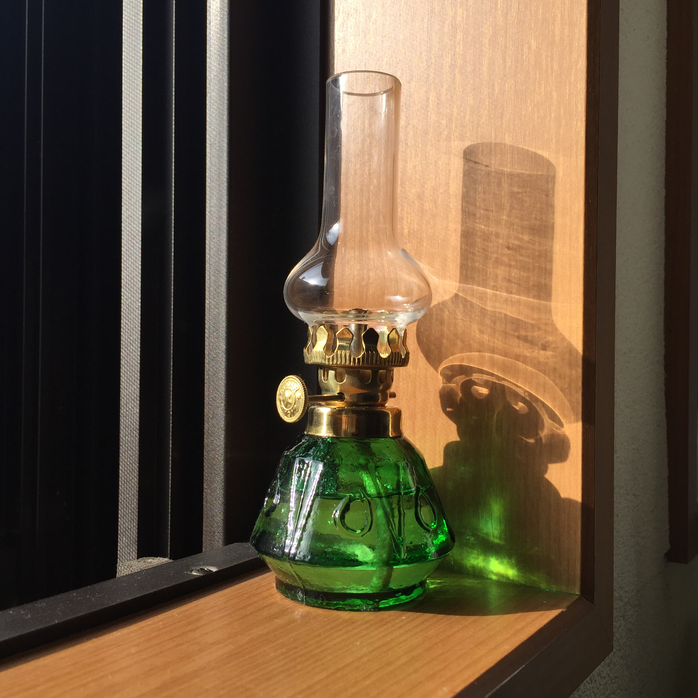 An kerosene (they recommend to use "lamp-oil" in Japan) lamp made in Poland which was imported to Japan as "Oil Lamp,POL-104GR ".